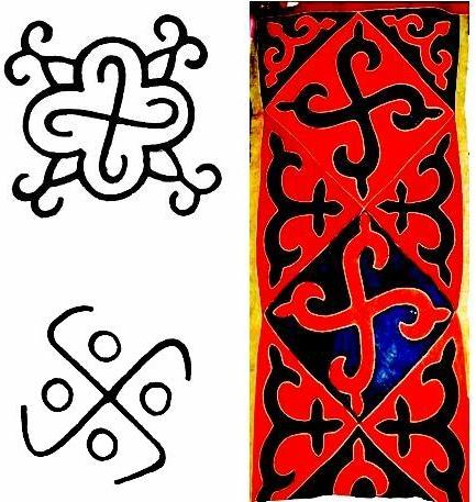 Folk art